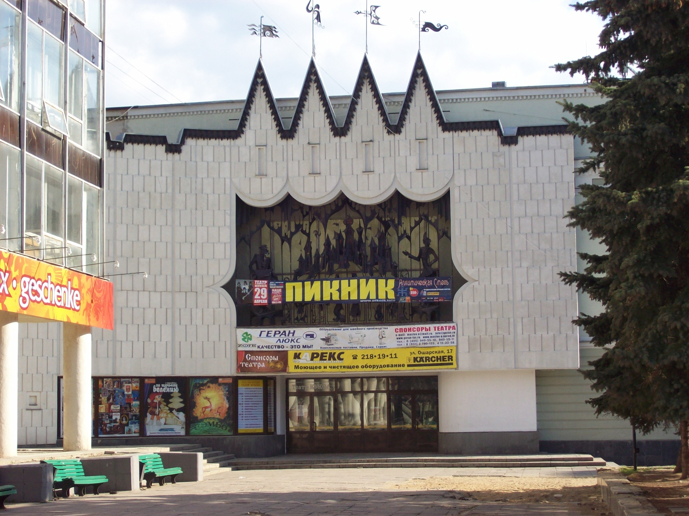 Main entrance of the Nizhny Novgorod Puppet Theatre. The original structure, built in 1912 by Fyodor Shekhtel, was radically remodelled in 1978-79. The Eclectic facade on Sverdlov St, though, has been preserved.